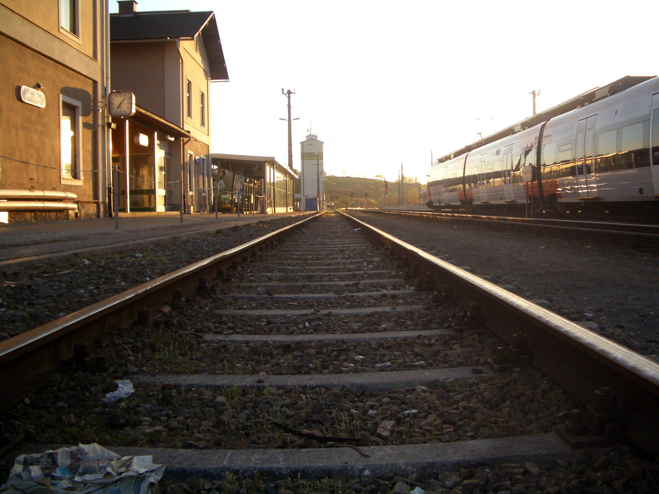 Train station in Pregarten in Upper Austria